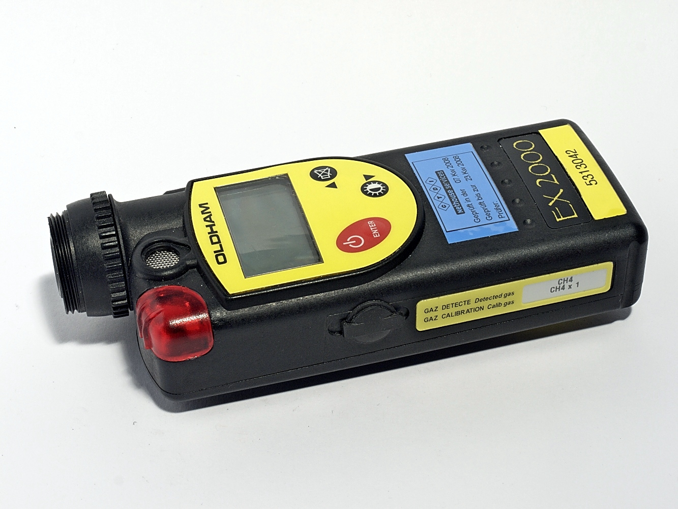 Oldham EX2000 portable Explosimeter, no sensor attached.